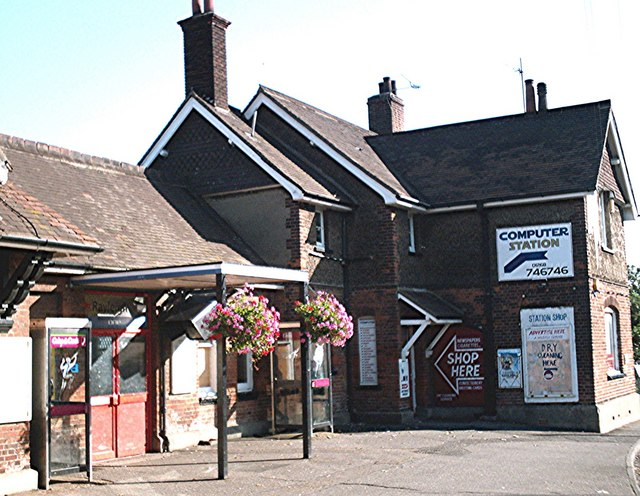 Rayleigh Station The original buildings dating from the late 1800's. Now on First Railway's Southend Victoria to Liverpool Street commuter route.